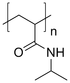 PNIPAM structure in ACS format